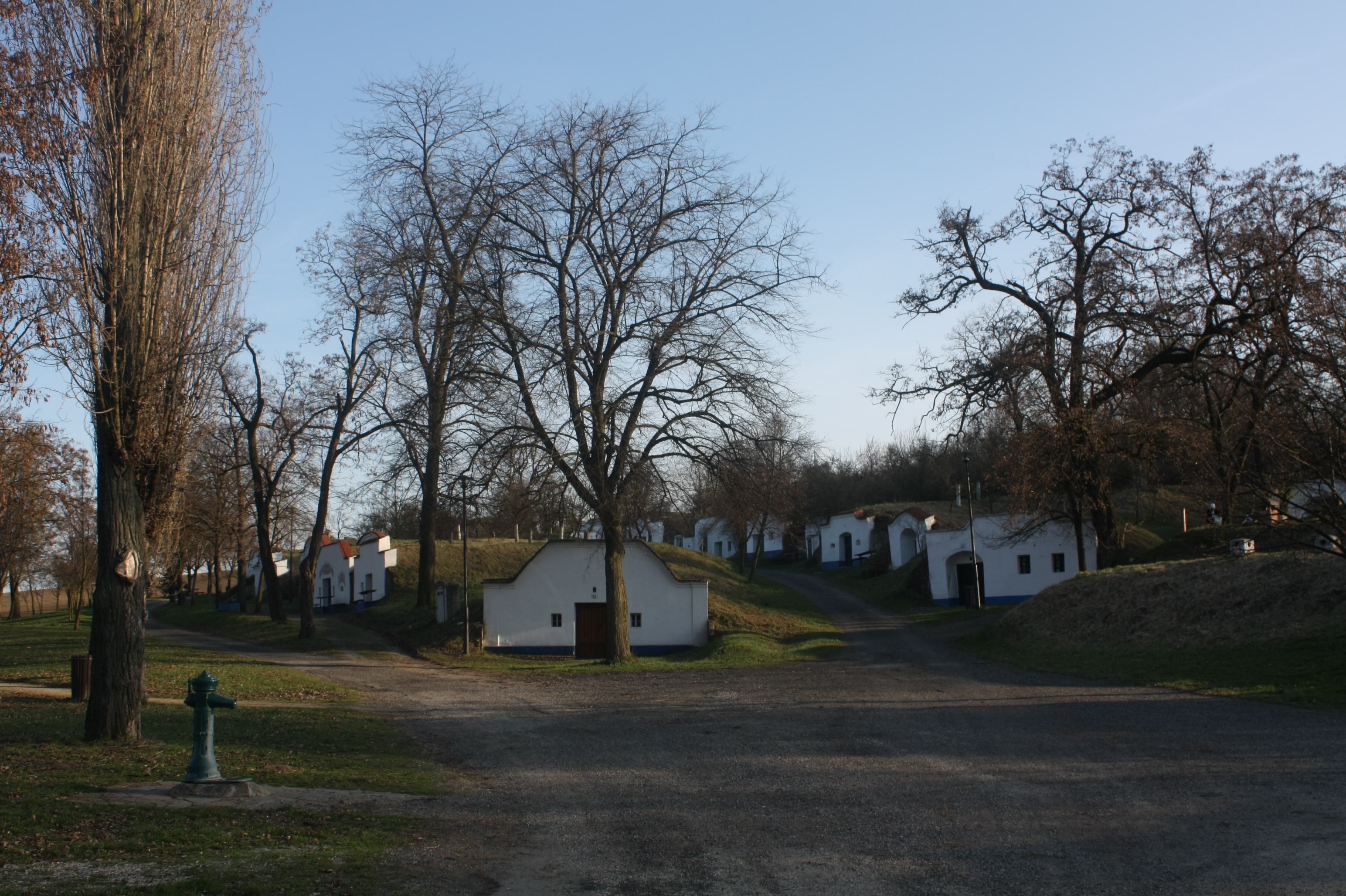 Petrov (Hodonín district, Czech Republic) - Plže wine cellars